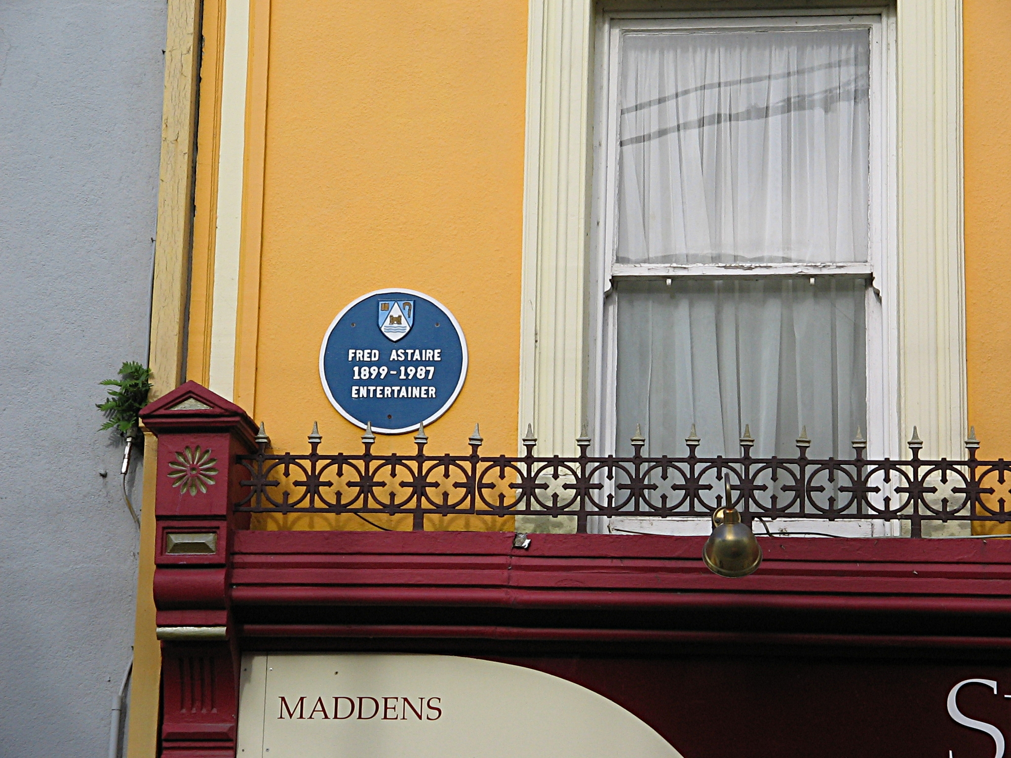 This photograph was taken by me on October 23rd, 2006, of the memorial plaque honouring Fred Astaire on the wall of Madden's Summerhill Cafe (formerly Madden's pub) on Main Street, Lismore, County Waterford, Ireland. It was erected by the people of Lismore in 2000 and unveiled by Astaire's daughter, Ava Astaire McKenzie, in recognition of Astaire's longstanding relationship with the village (he visited[1] his sister Adele Astaire in Lismore Castle from the mid-1930s until the 1970s). Astaire continued to visit Ireland regularly until shortly before his death, visiting his daughter Ava who has lived in Ireland since 1975.